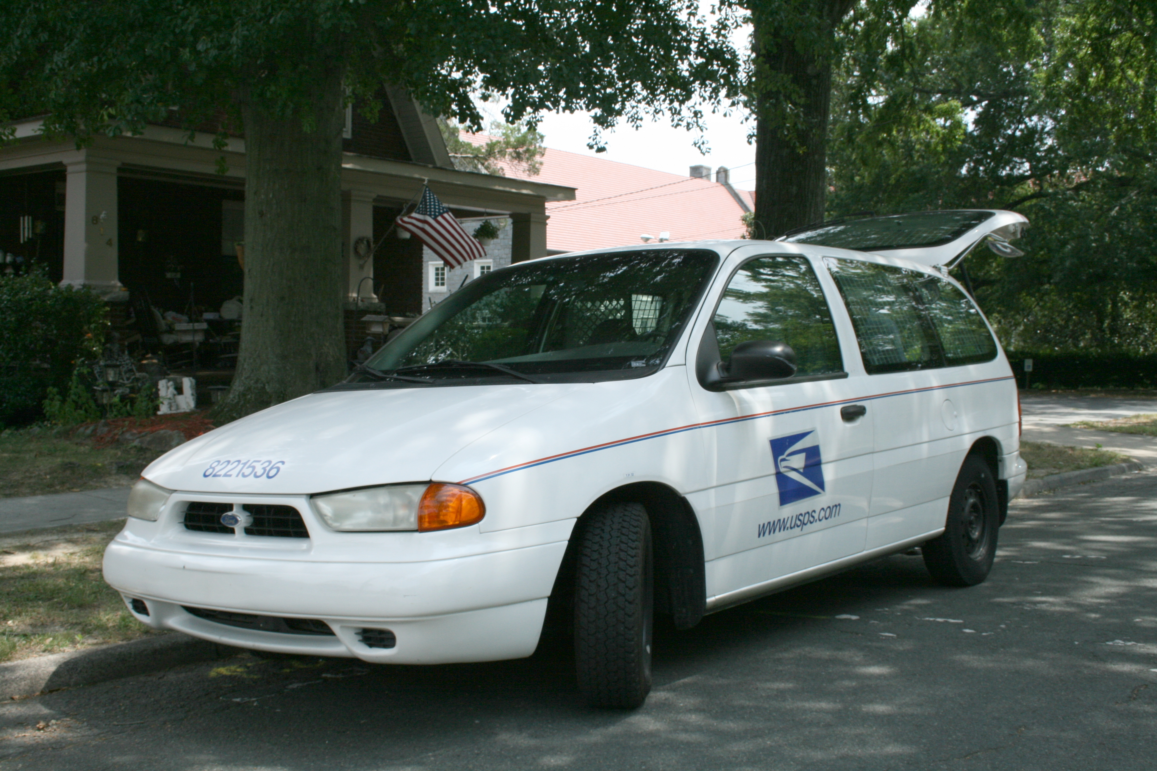 United States Postal Service Ford Windstar mail delivery van parked on Watts Street in Durham, North Carolina.